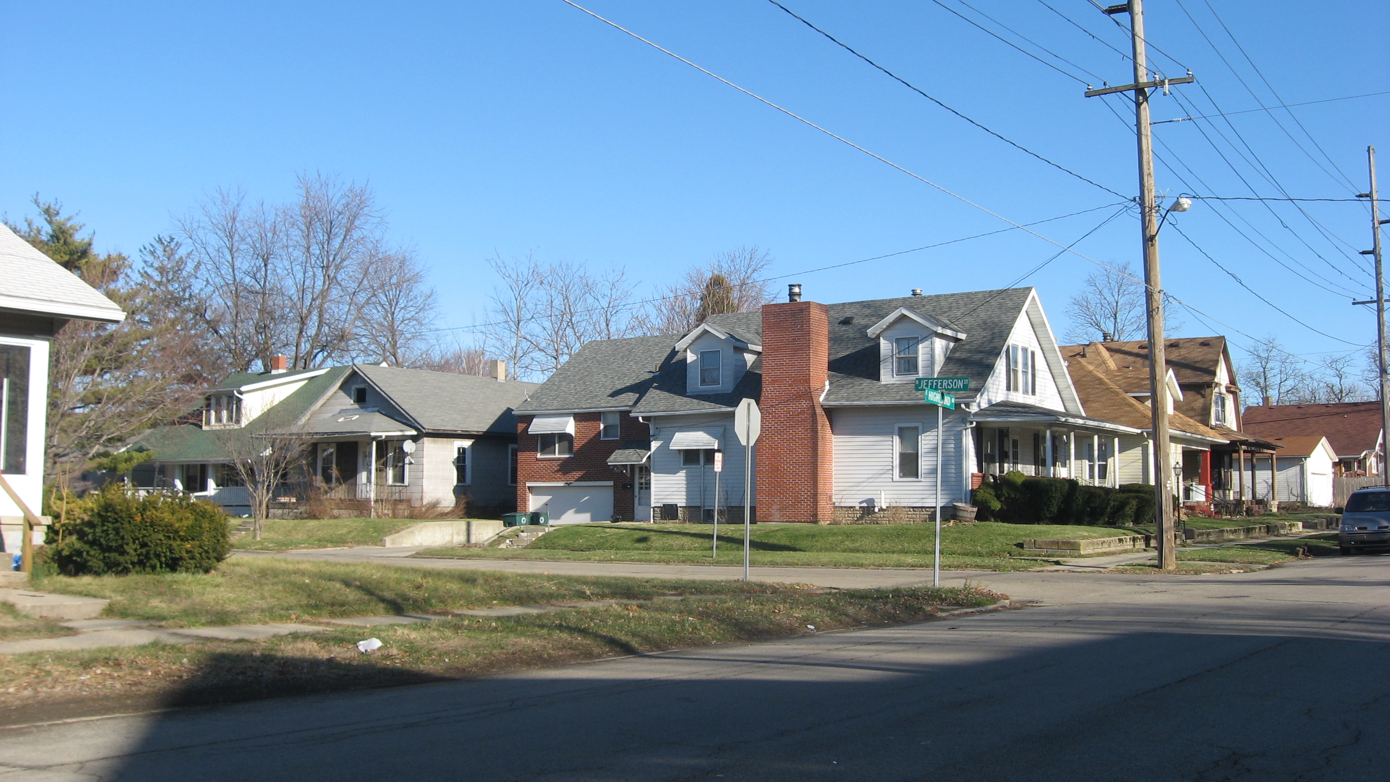 Houses on the northern side of Highland Avenue on both sides of the Jefferson Street junction in Muncie, Indiana, United States. This neighborhood is part of the Wysor Heights Historic District, a historic district that is listed on the National Register of Historic Places.